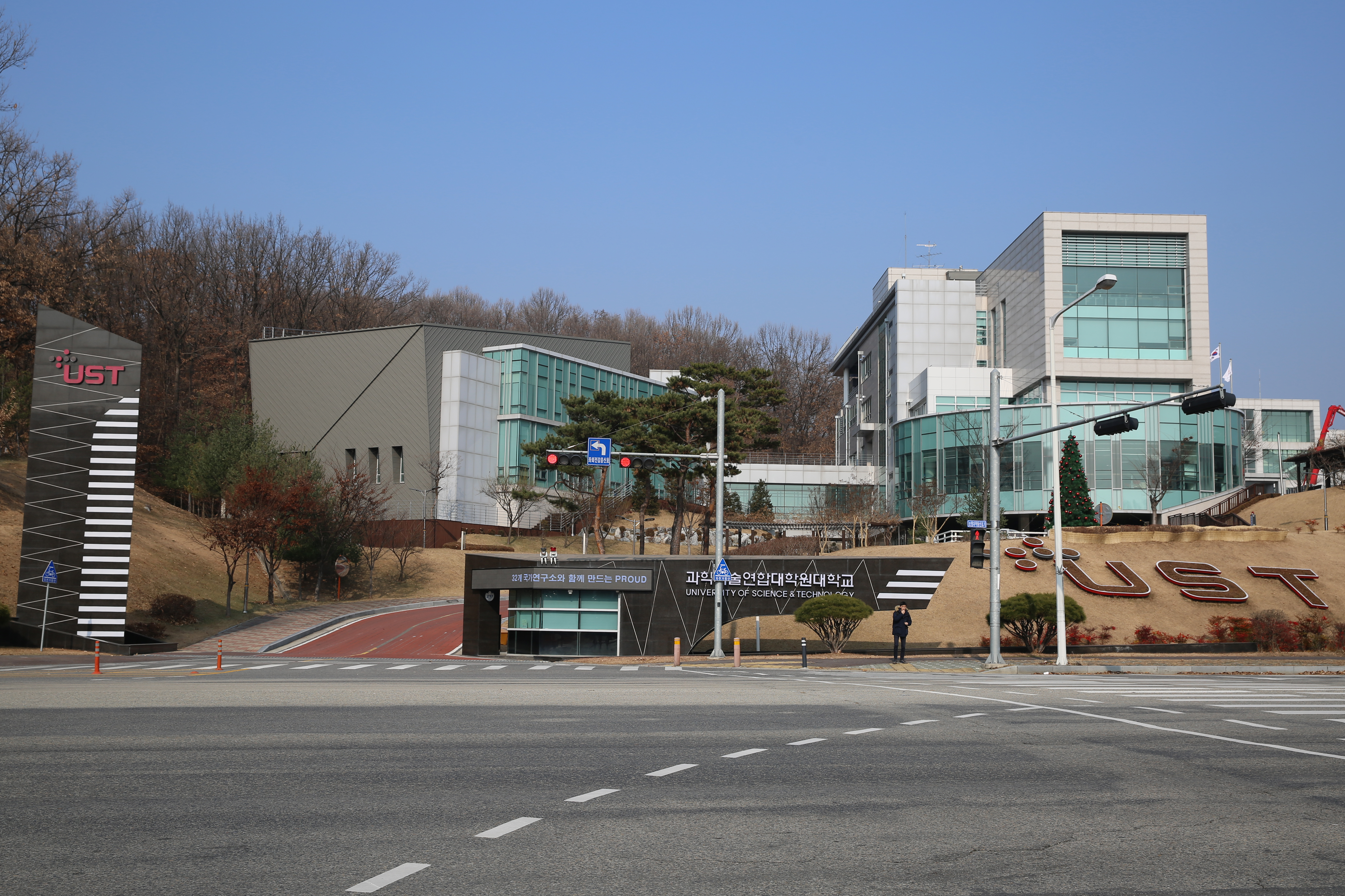 Entrance to the headquarters of the University of Science and Technology in Daejeon, South Korea.